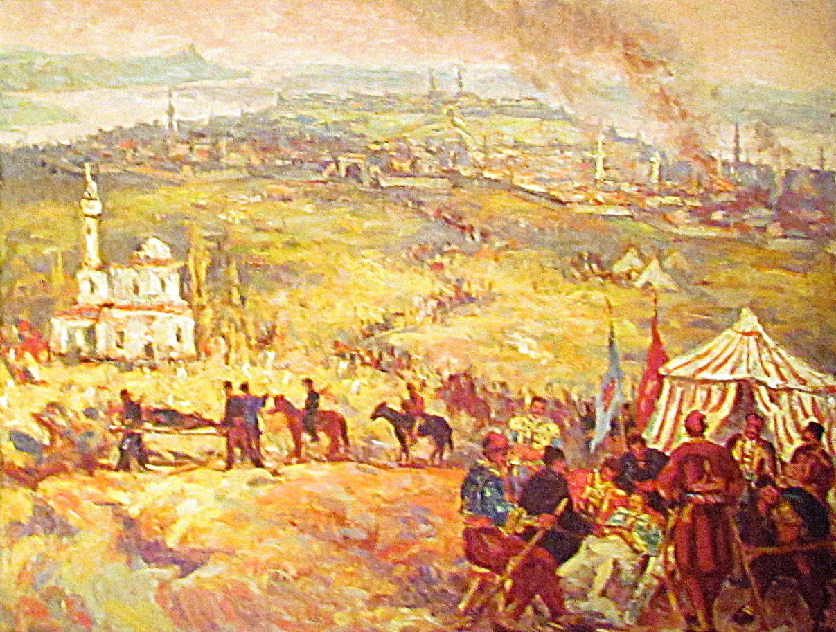 Death of Vasa Carapic